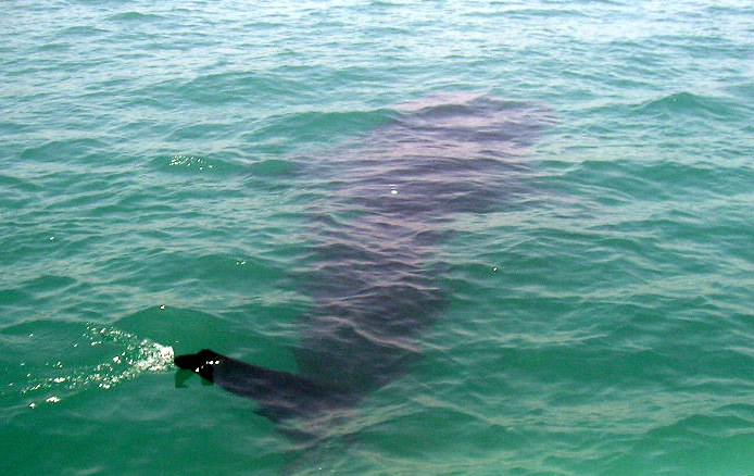 The butanding or whale shark is the biggest fish in the world. In 2004, Time magazine has ranked interacting with those gentle giants as "The Best Animal Encounter in Asia". Olympus Camedia (PRRYA Summer Camp and RINCOMESA Provincial Forum on Sustainable Agriculture, April 2005). Slightly improved with Picasa.